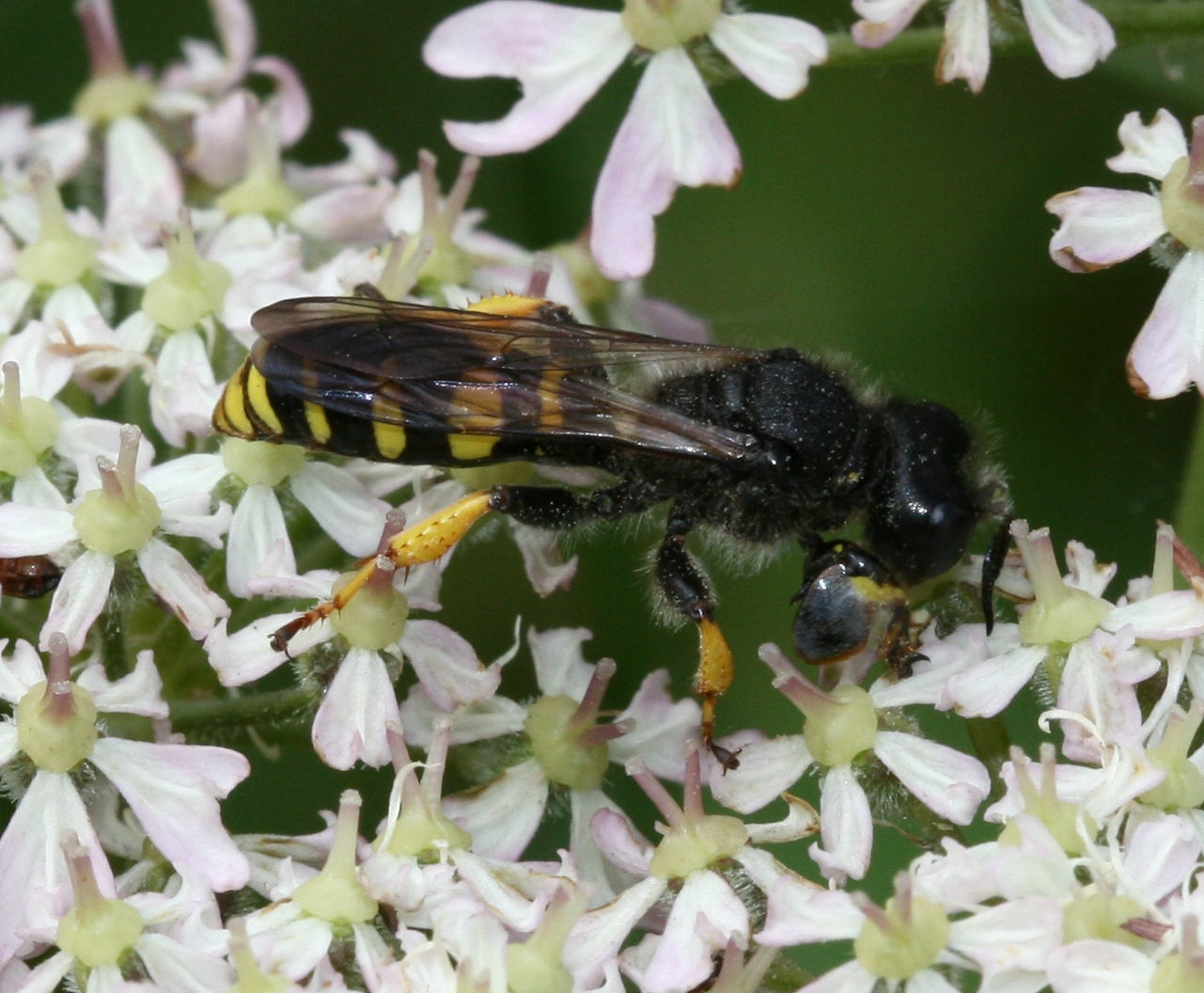 A Digger Wasp